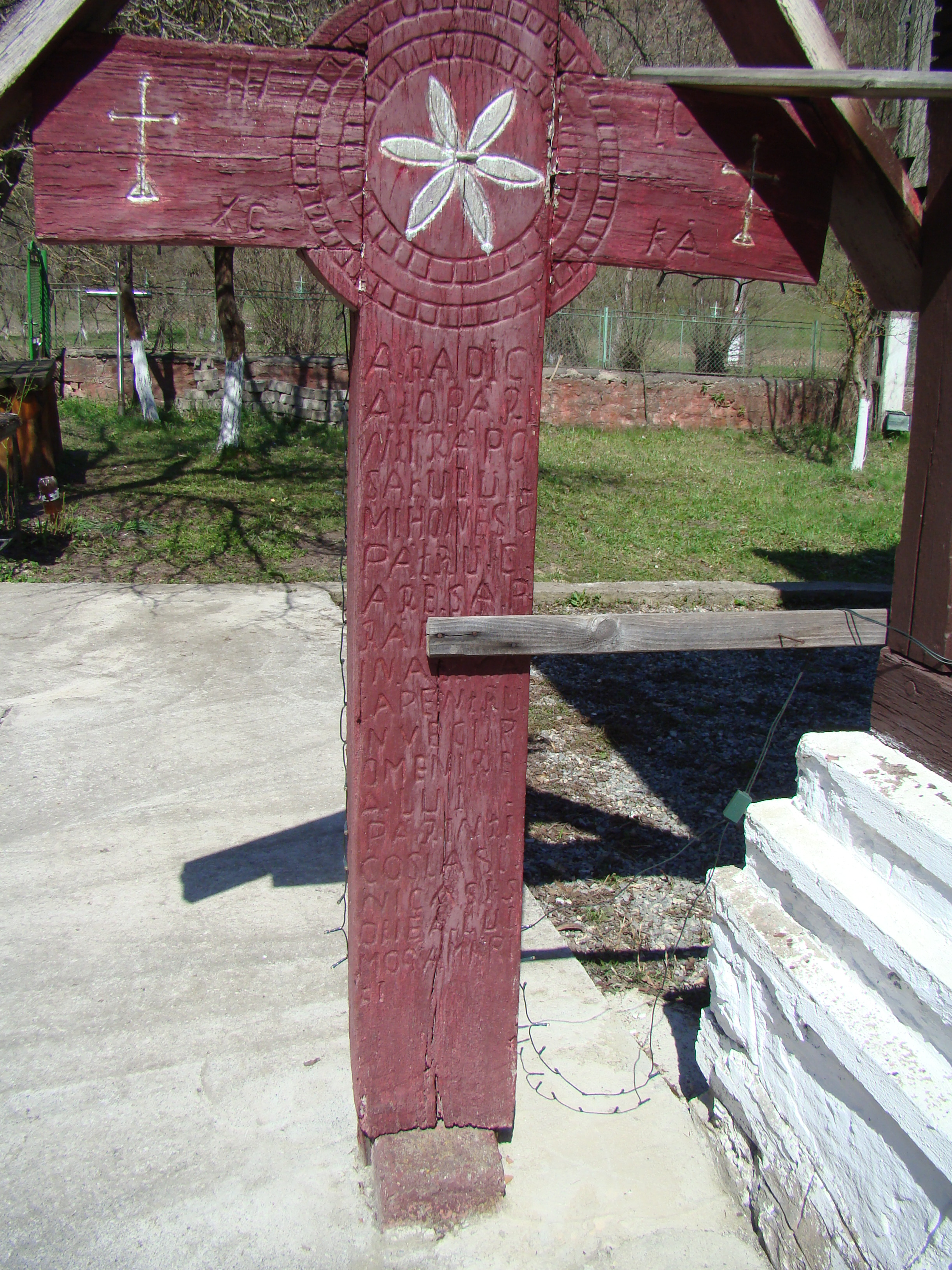 Saint Nicholas wooden church in Groș, Hunedoara county, Romania